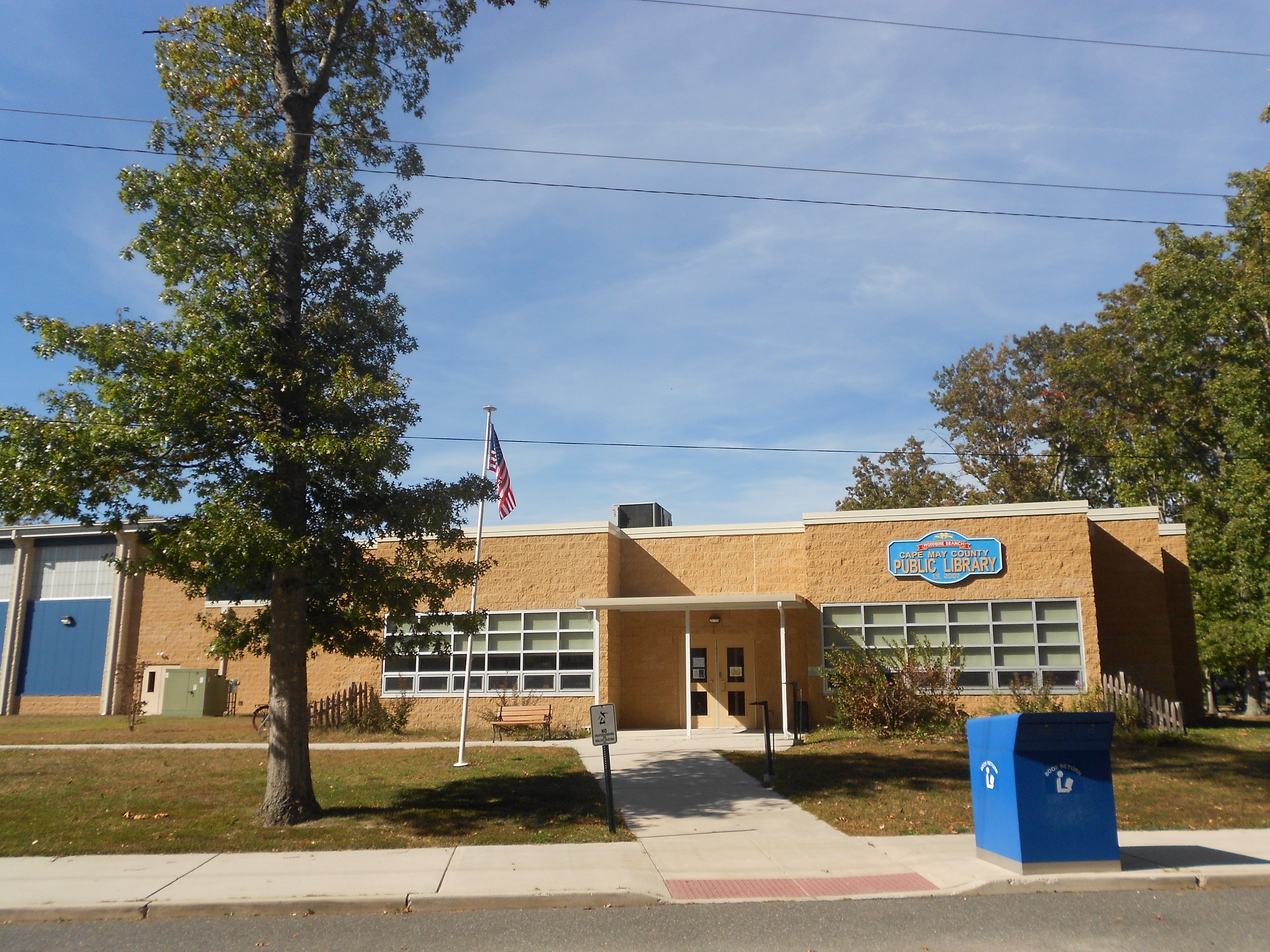 Cape May Librariy, Woodbine Branch in Woodbine, Cape May County, New Jersey